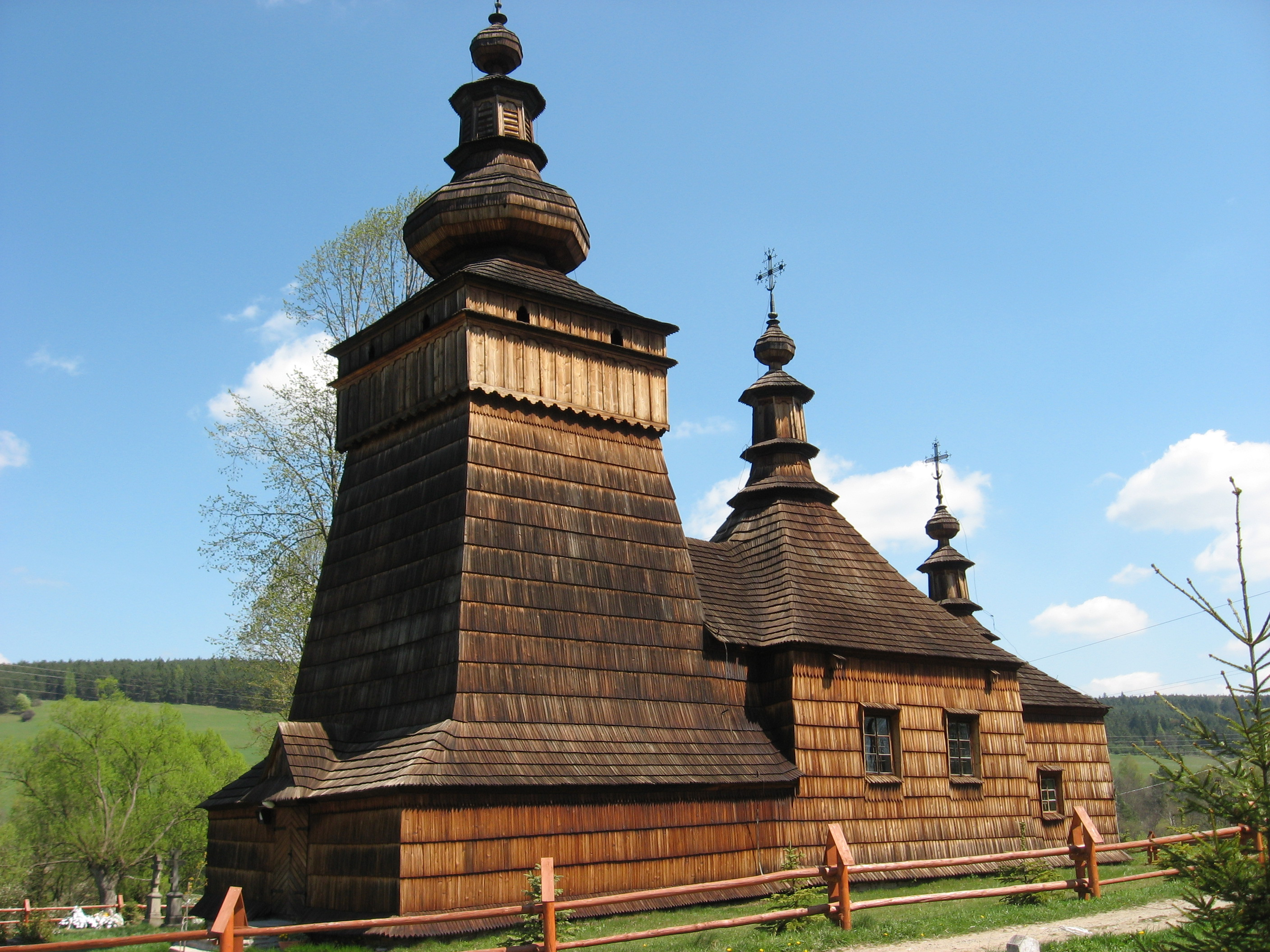 Lemko Church of Sts. Kosma and Damian in Skwirtne, Poland, from 1837.